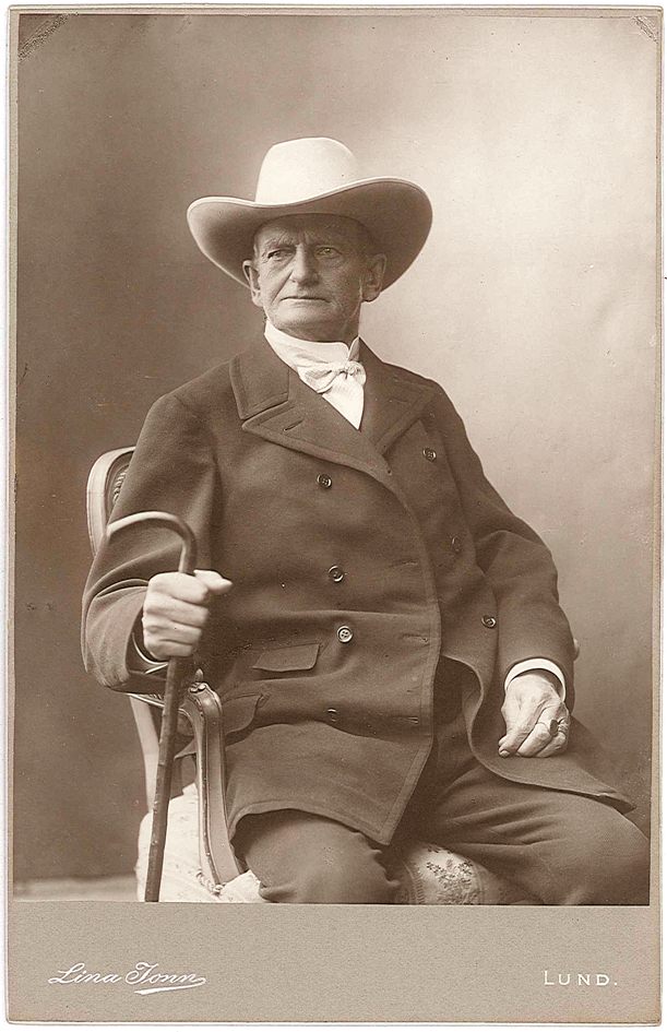 Count Arvid Posse (1820-1901), Swedish politician; minister of finance 1880-1881 and prime minister of Sweden 1880-1883.